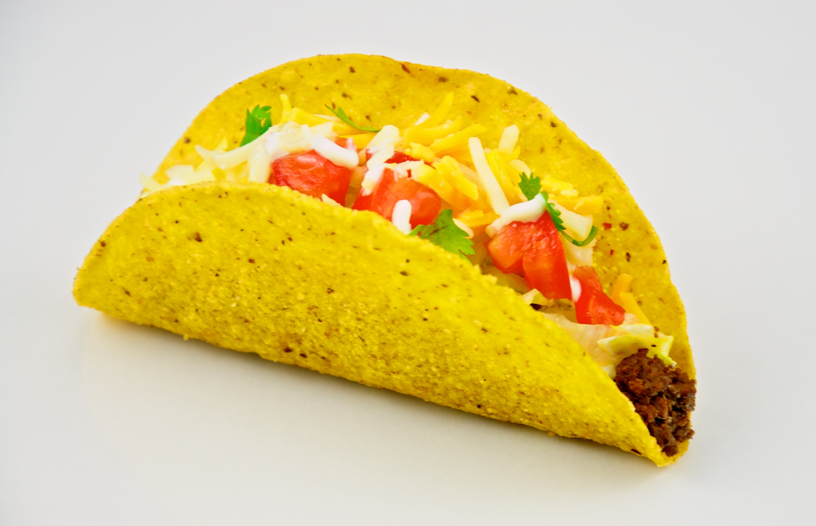 Traditional American taco, served with ground beef, sour cream, iceburg lettuce, tomato and jack and cheddar cheese.